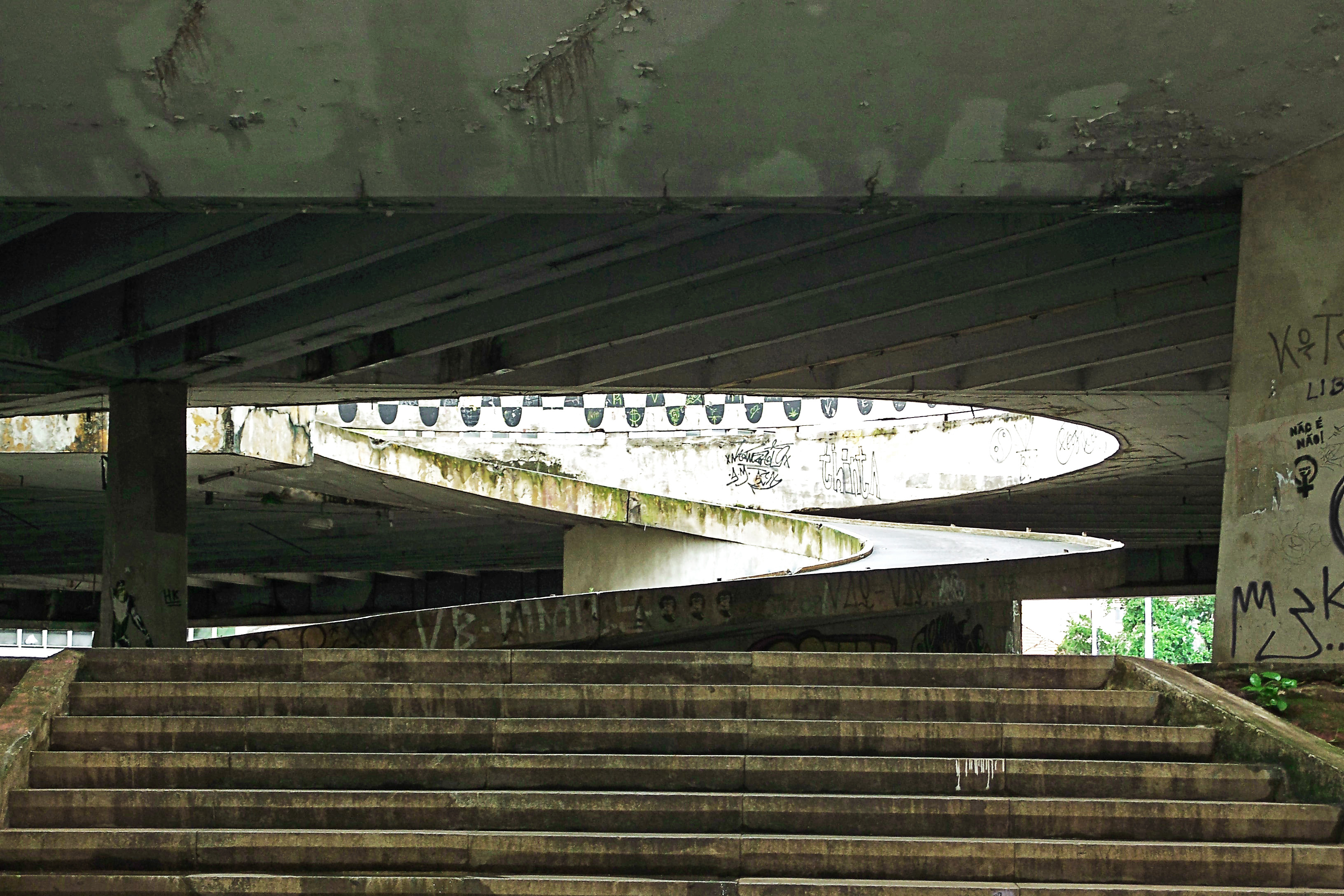 Access ramp to "Praça do Pentágono" structure at Praça Roosevelt, in São Paulo, Brazil.